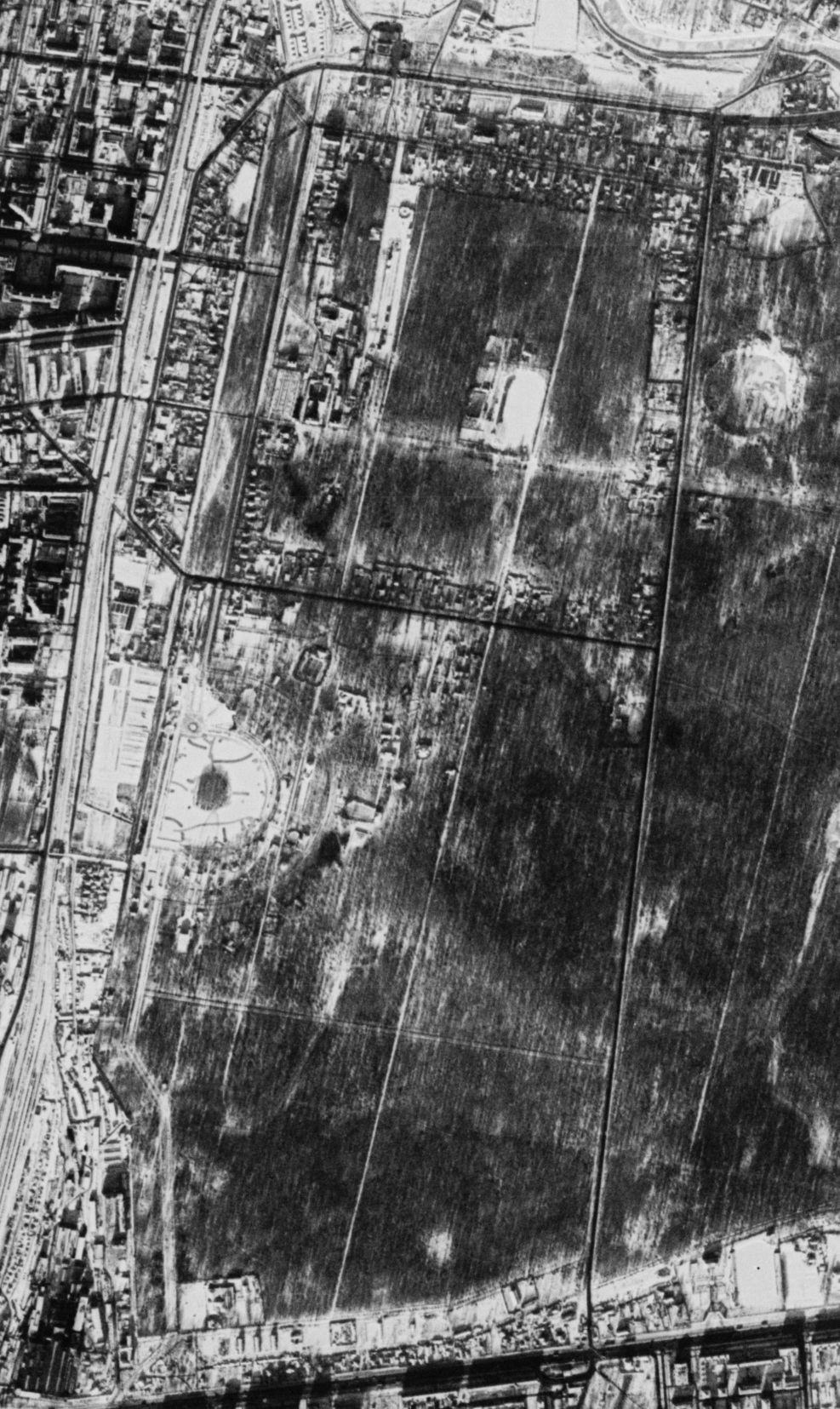 Izmailovo park. Part of Corona satellite imagery